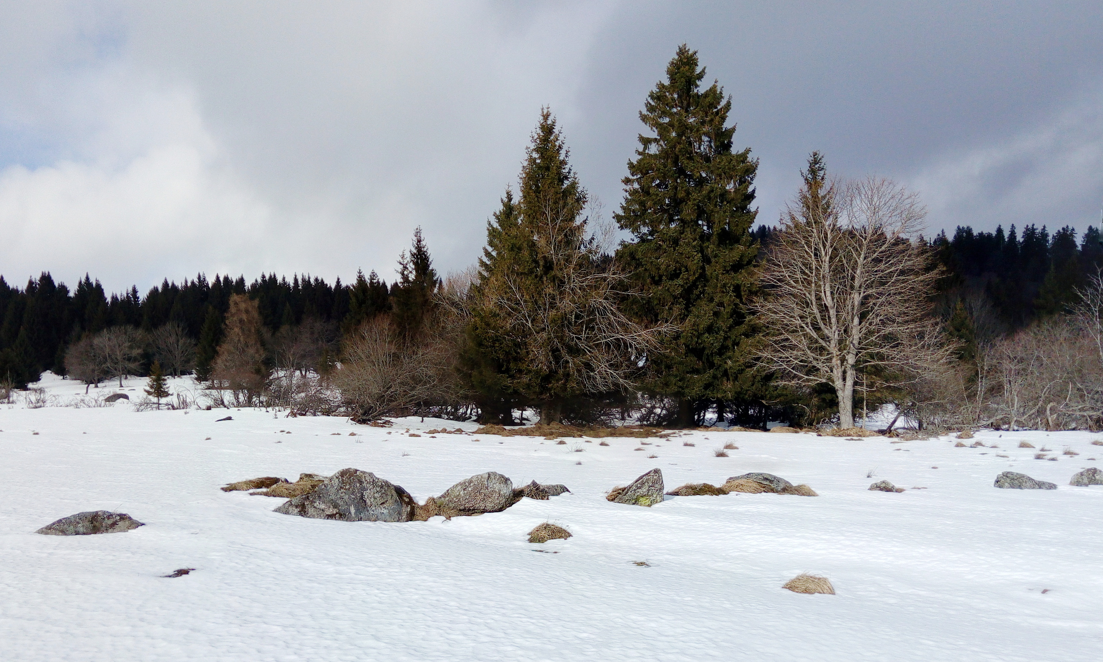 Žlebský vrch, a mountain in the Bohemian Forest, south Bohemia, Czechia.